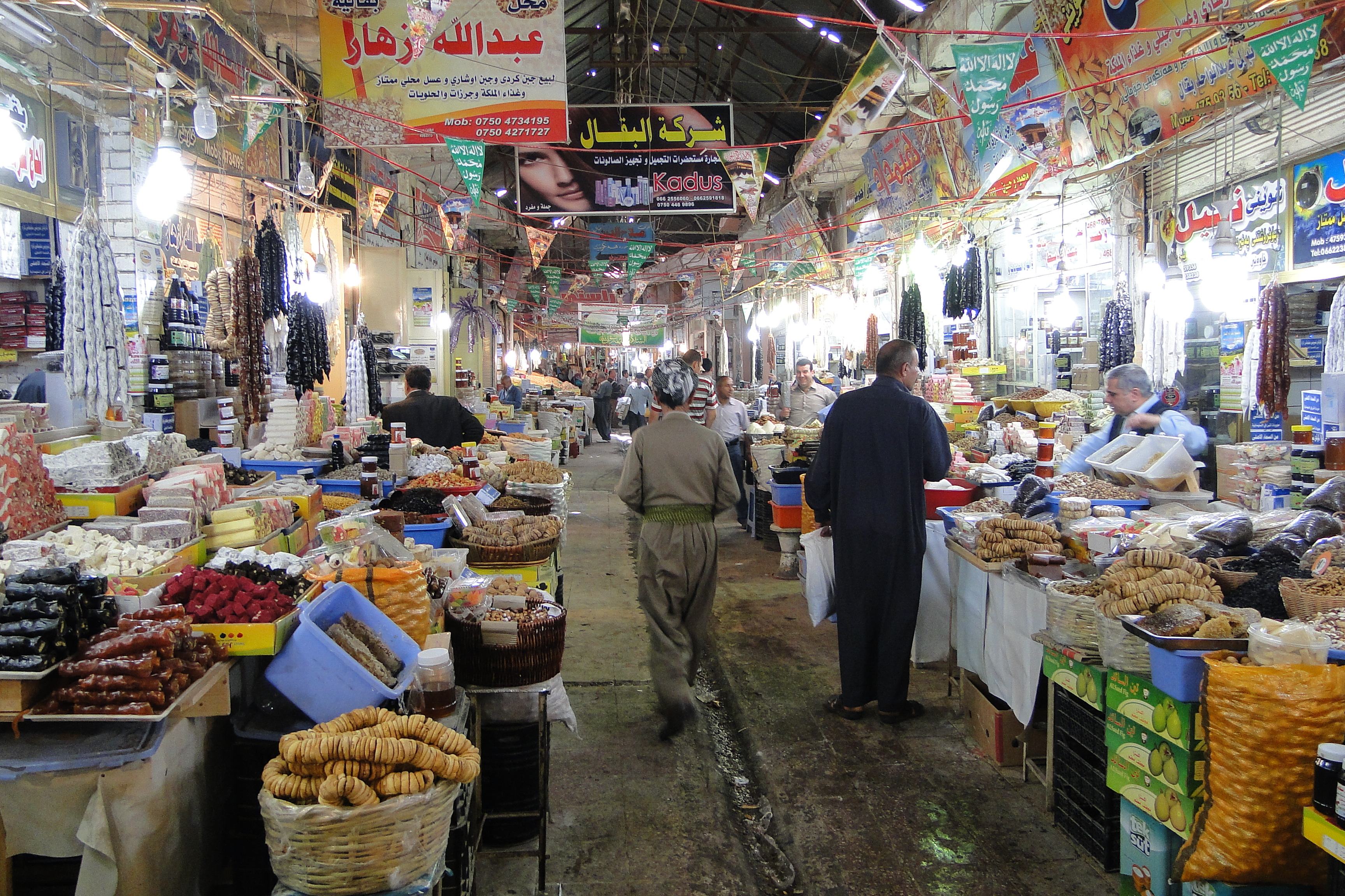 Inside the Bazaar - Erbil - Iraq